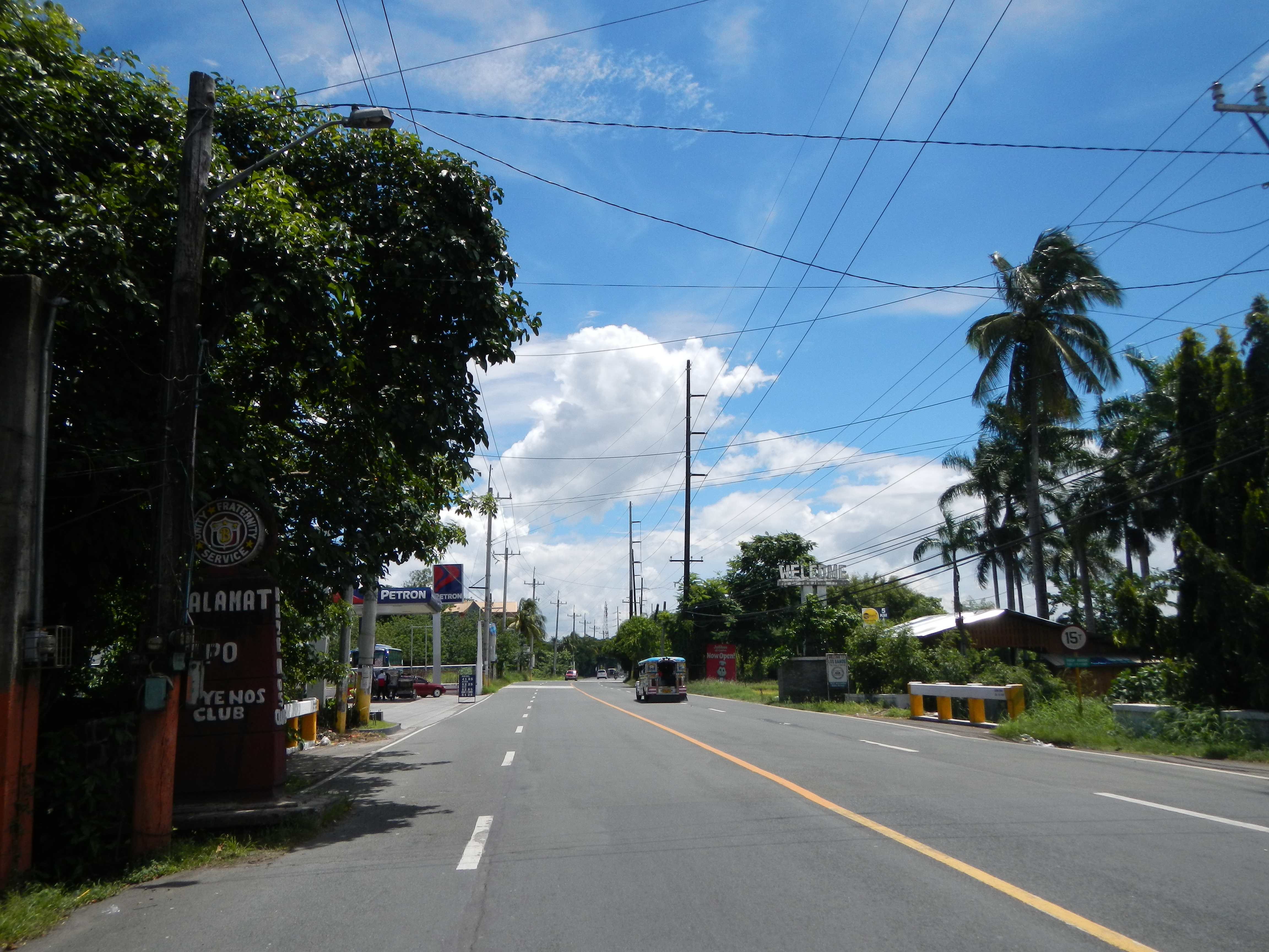 Upload wizard (rare, raw, unedited and original/own work) photos of and panorama of the National Highway - boundary town Barangays - (Welcome signs and Monuments) of ------- Los Baños, Laguna[1] (The Nature and Science City of Los Baños is a first class urban municipality in the province of Laguna, Philippines.) & Bay, Laguna[2] (is a second class[3] municipality politically subdivided into 15 barangays, one of the oldest towns in the province of Laguna[4], Philippines, covering even Los Baños [5] and Calauan[6]. In 1581, Bay became the capital of the Province of Laguna de Bay and remained so until 1688 when the capital was moved to Pagsanjan. The Patron of Bay is Saint Augustine of Hippo [7] celebrating his Feast Day during August 28. [8] Coordinates: 14°8'1"N 121°15'9"E [9] Laguna, Region 4, Philippines, Asia Geographical coordinates: 14° 10' 58" North, 121° 17' 5" East This place is situated in Laguna, Region 4, Philippines, its geographical coordinates are 14° 10' 58" North, 121° 17' 5" East and its original name (with diacritics) is Bay. LLDA [10])